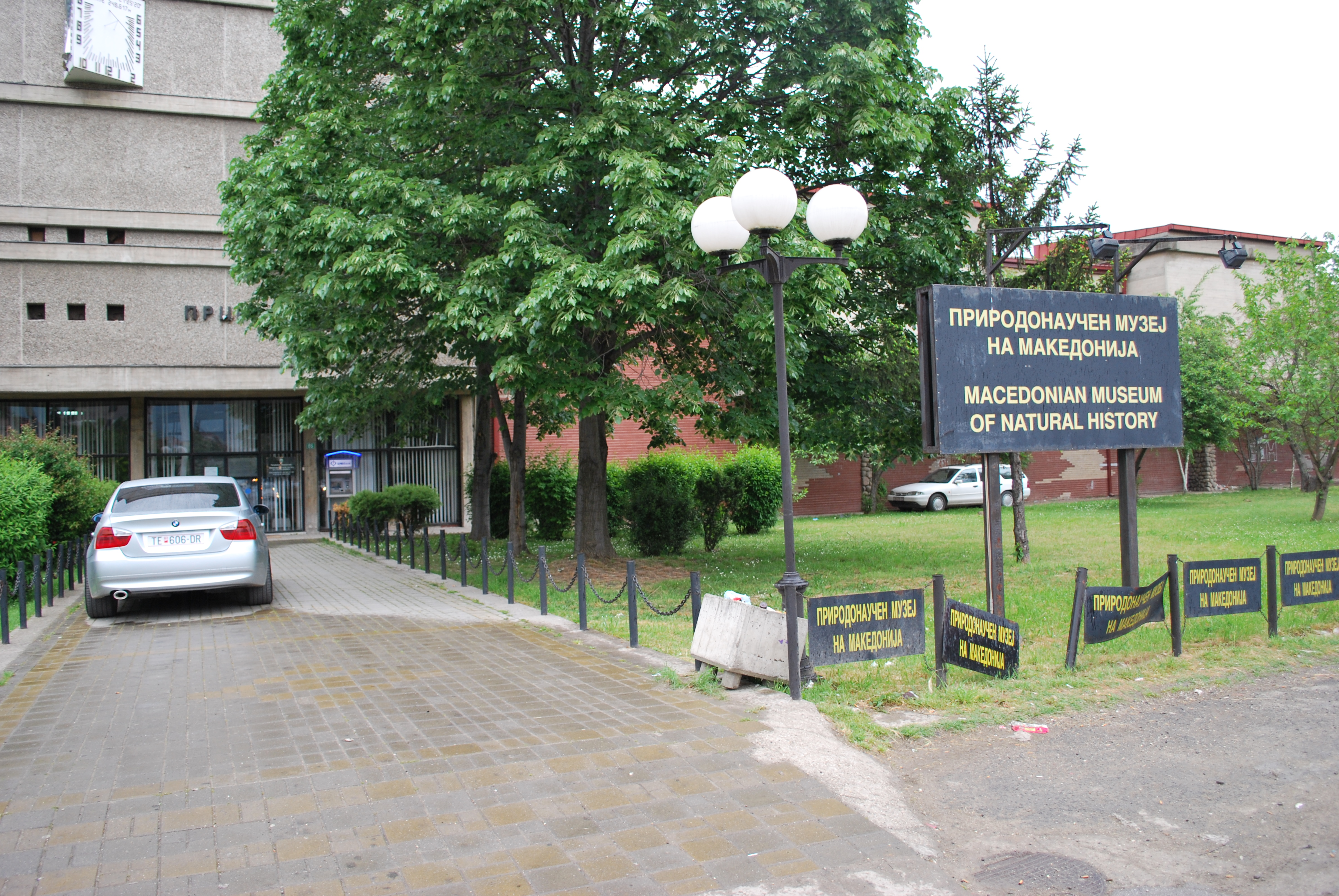 Macedonian Museum of Natural History in Skopje, Macedonia